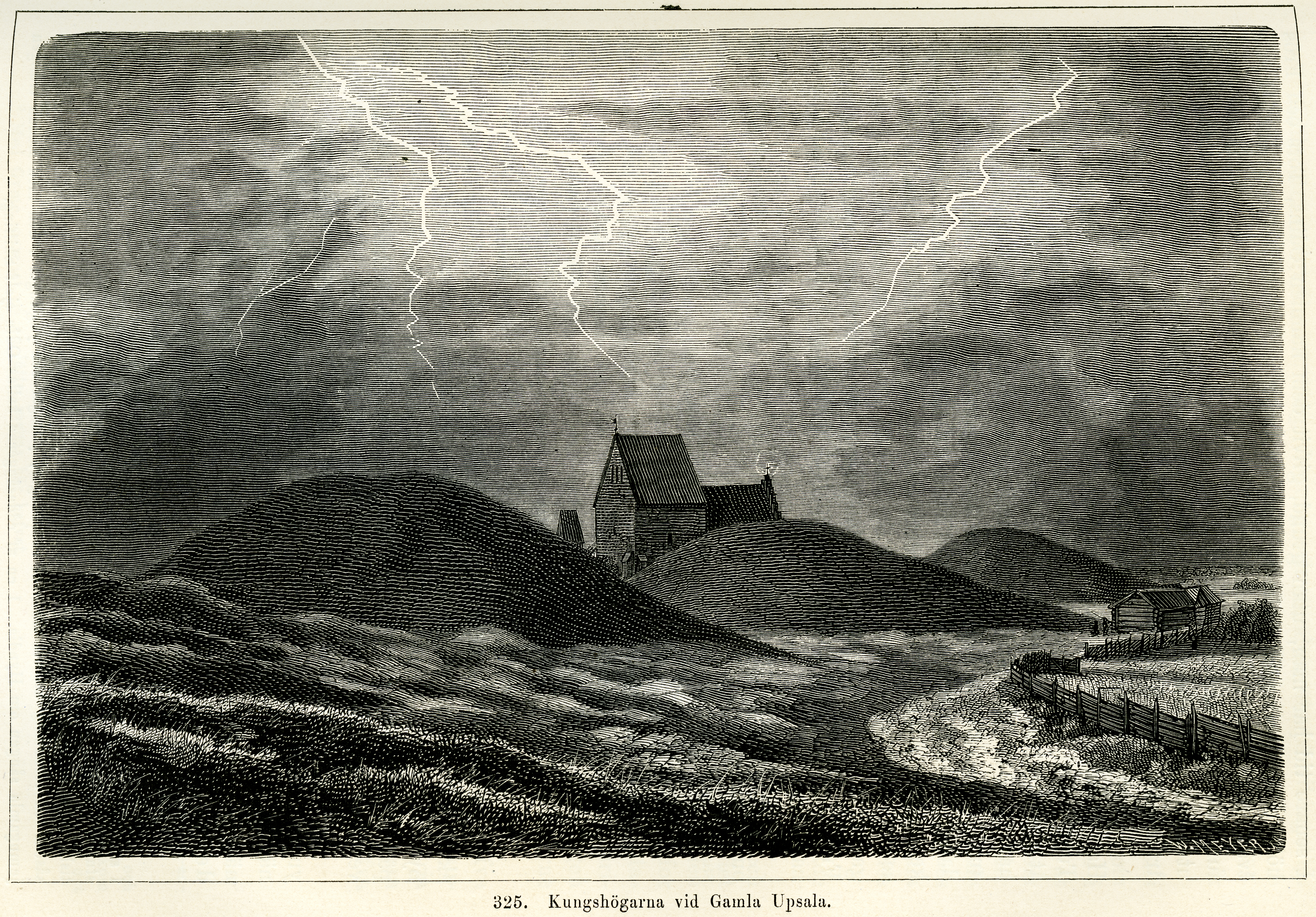 The Royal mounds of gamla Uppsala, Uppsala municipality, Uppland, Sweden.